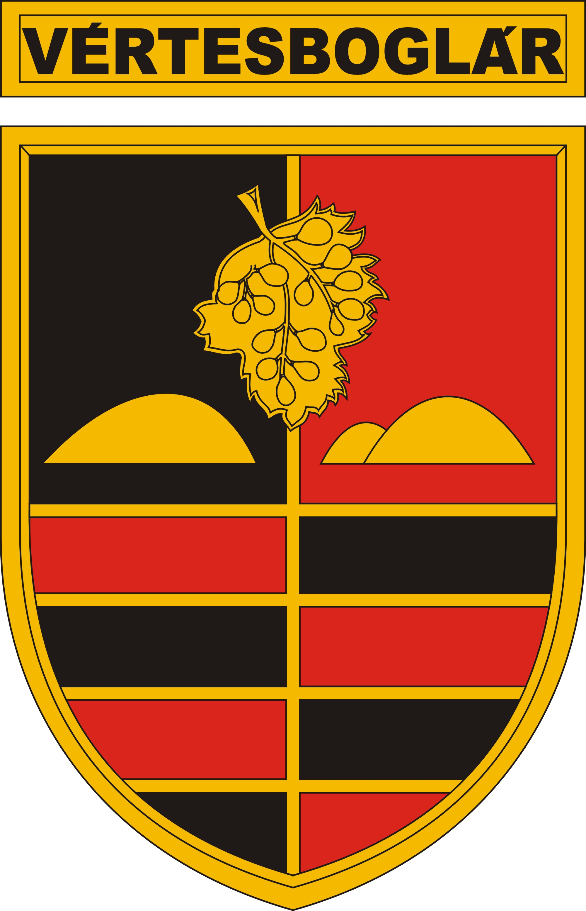 Coat of arms of Vértesboglár, Hungary